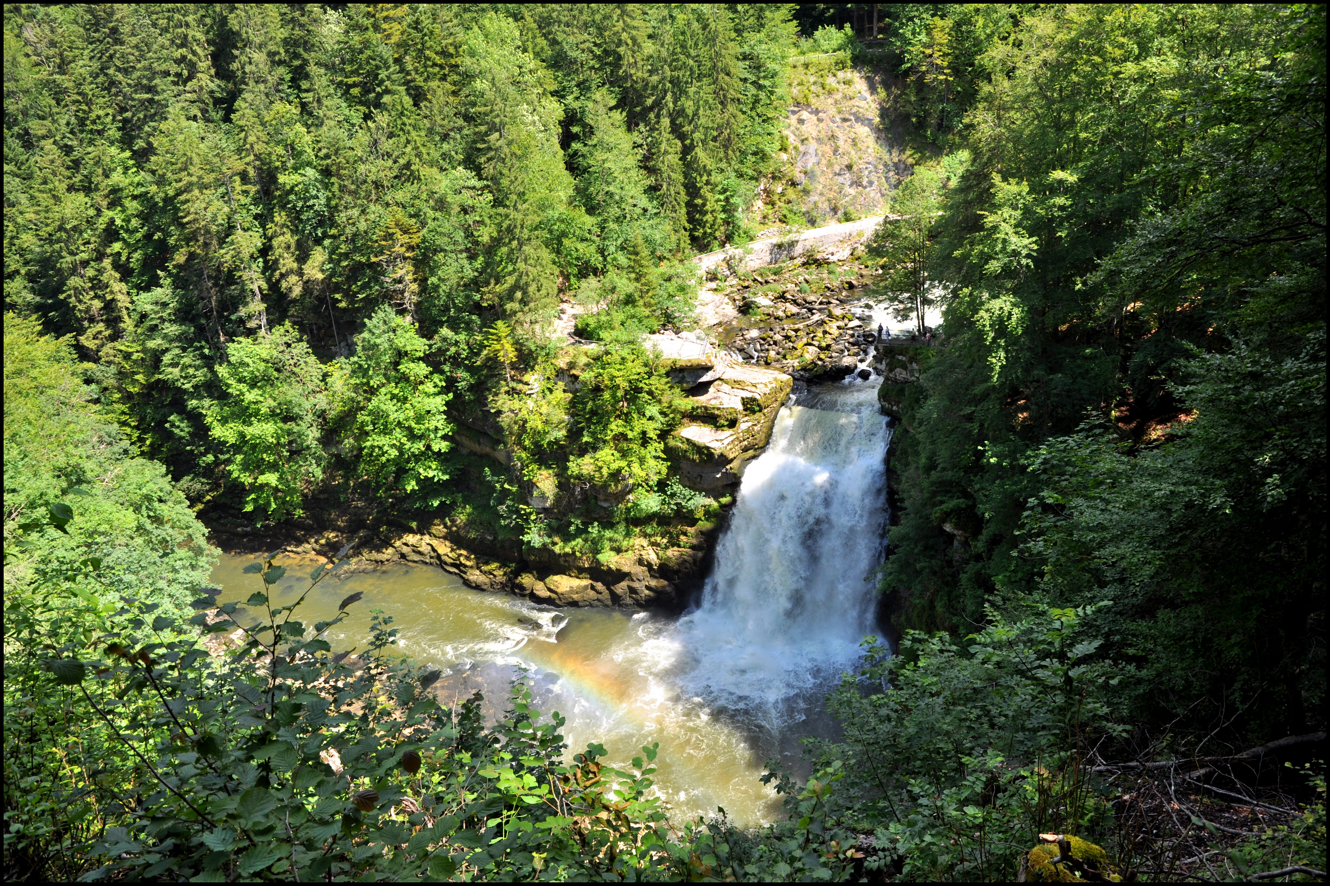 Le saut du Doubs (The jump of the Doubs)